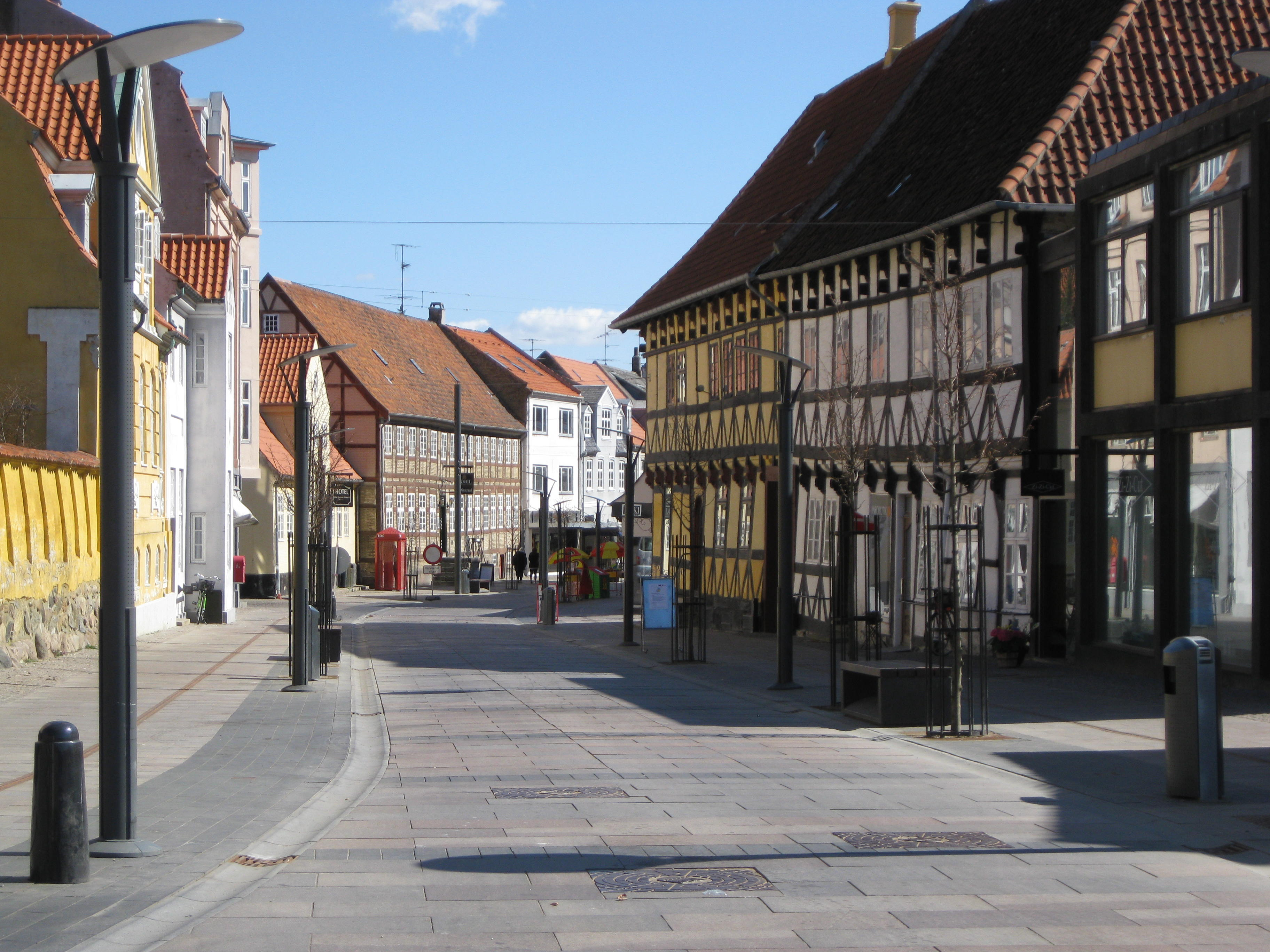 The pedestrian street in the town Kalundborg. The town is located in West Zealand, Denmark.